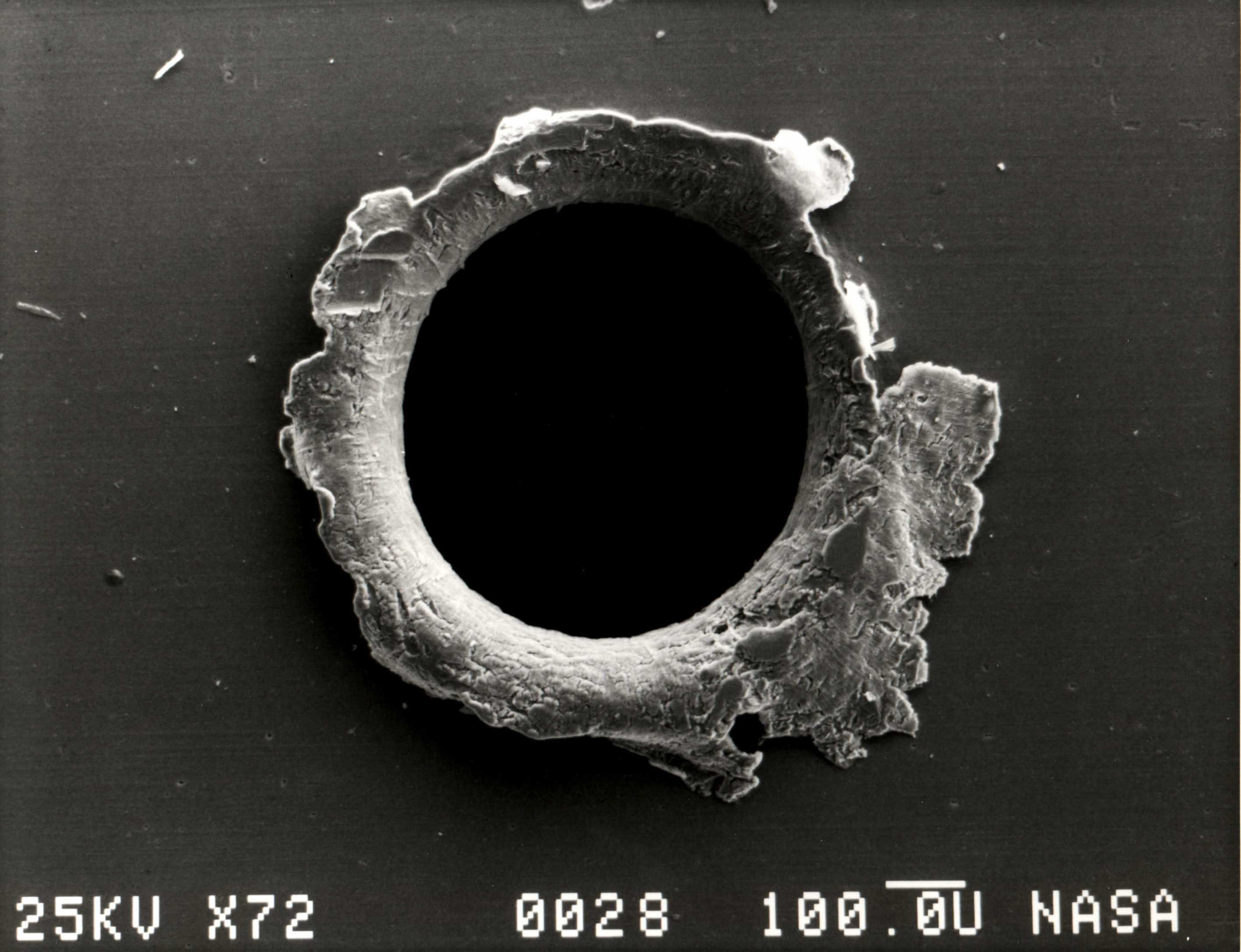 Debris hole in a panel of the SMM Satellite View of an orbital debris hole made in the panel of the Solar Max satellite. Transcription: 25KV X72 0028 100.0U NASA